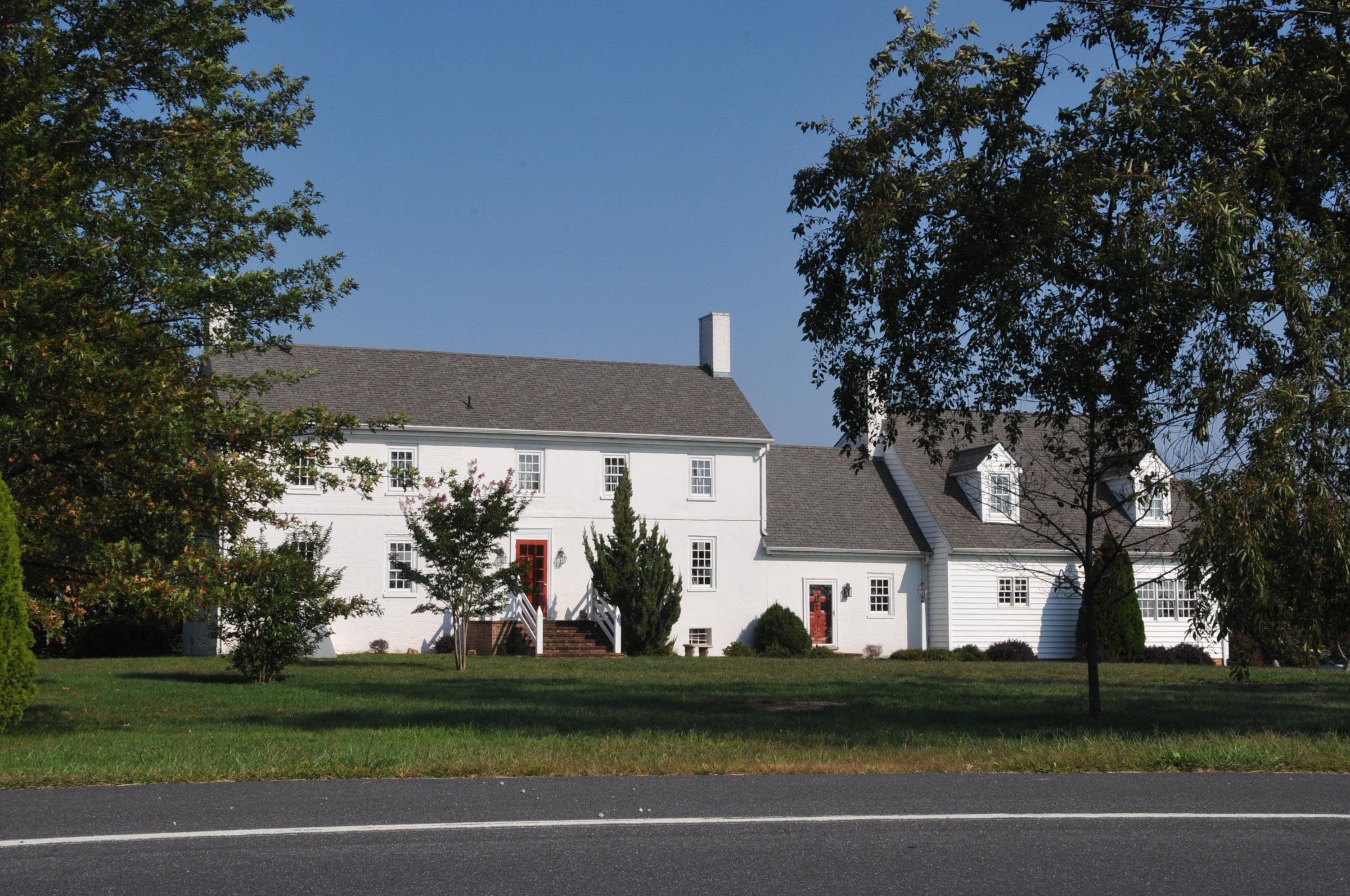 Snowland BUILT IN THE SECOND HALF OF THE 18TH CENTURY BY ANDREW NAUDAIN WHO WAS A FRENCH HUGUENOT. HE NAMED IT SNOWLAND AFTER HIS WIFE’S MAIDEN NAME , REBECCA SNOW.